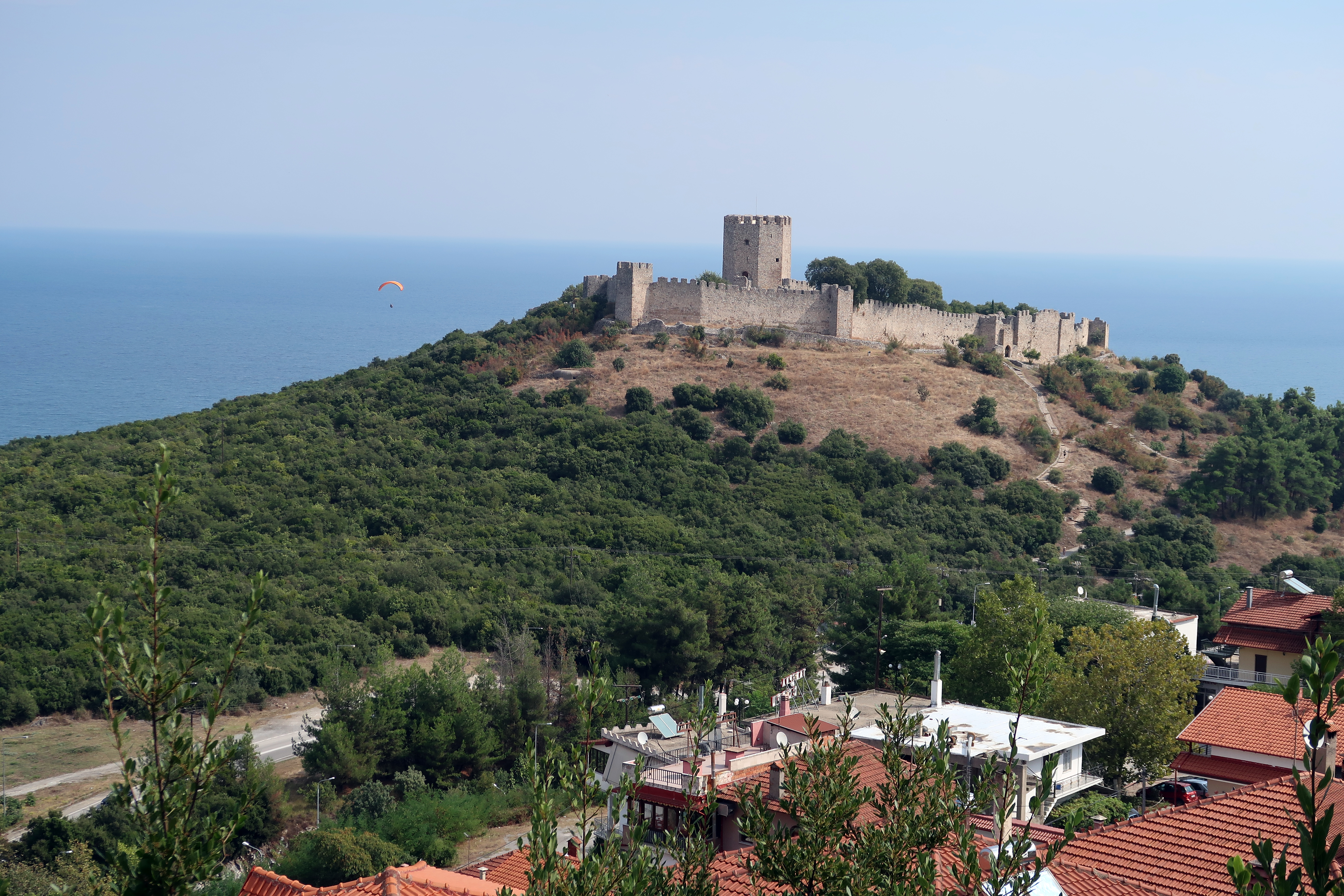 Platamon Castle with parachute glider in background.«άγνωστο»